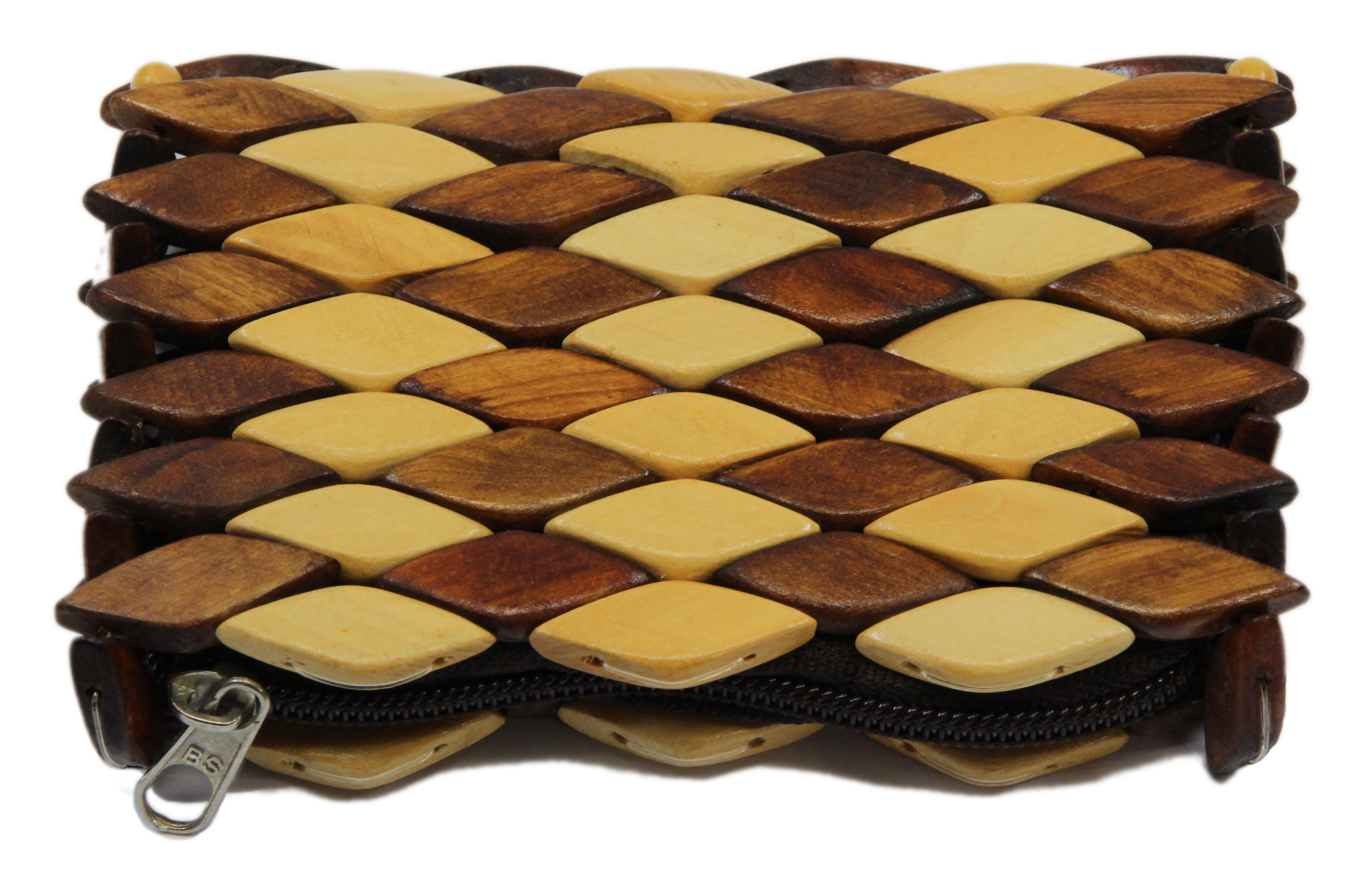 Coin purse decorated with wood pieces from French Guiana.